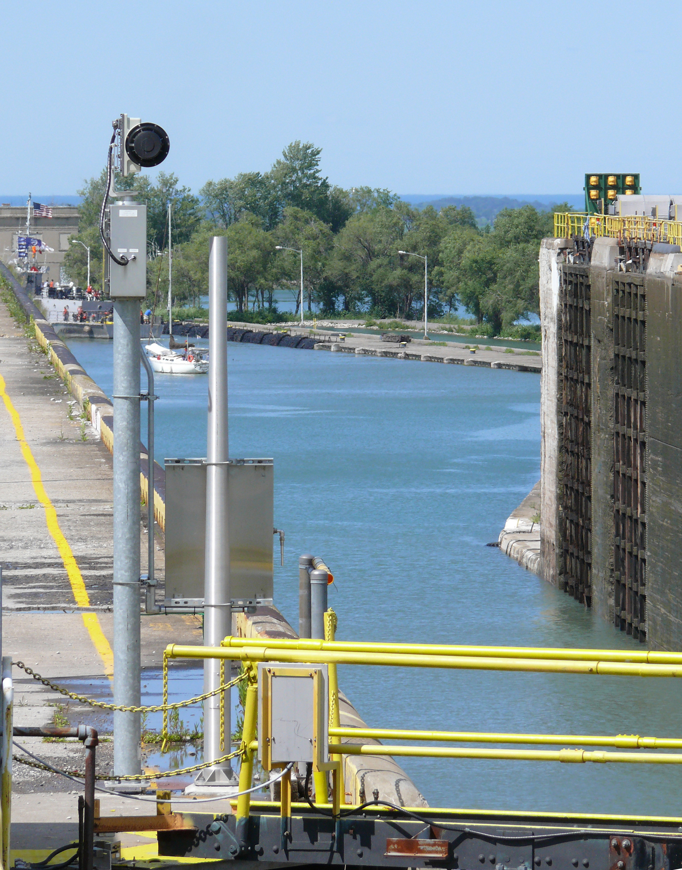 The Welland Canal's Lock 7 at Thorold, Ontario. The Welland Canal is a ship canal in Canada, that runs 43,4 km (27.0 miles) from Port Colborne, Ontario on Lake Erie to Port Weller, Ontario on Lake Ontario. The canal is part of the St. Lawrence Seaway.